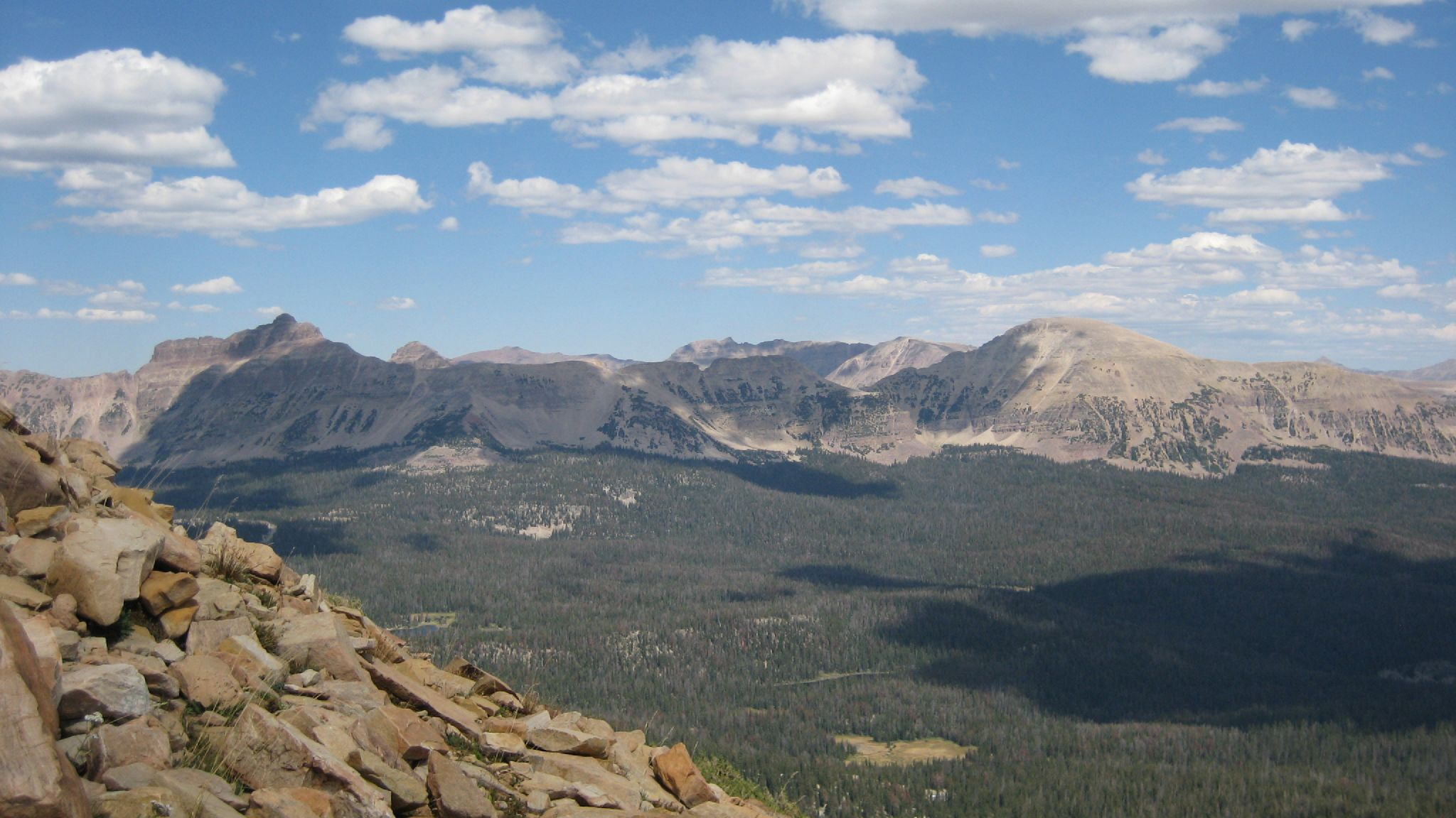 Took this while hiking Bald Mountain in the Uintahs. This work is licensed under a Creative Commons Attribution-Share Alike 3.0 United States License.